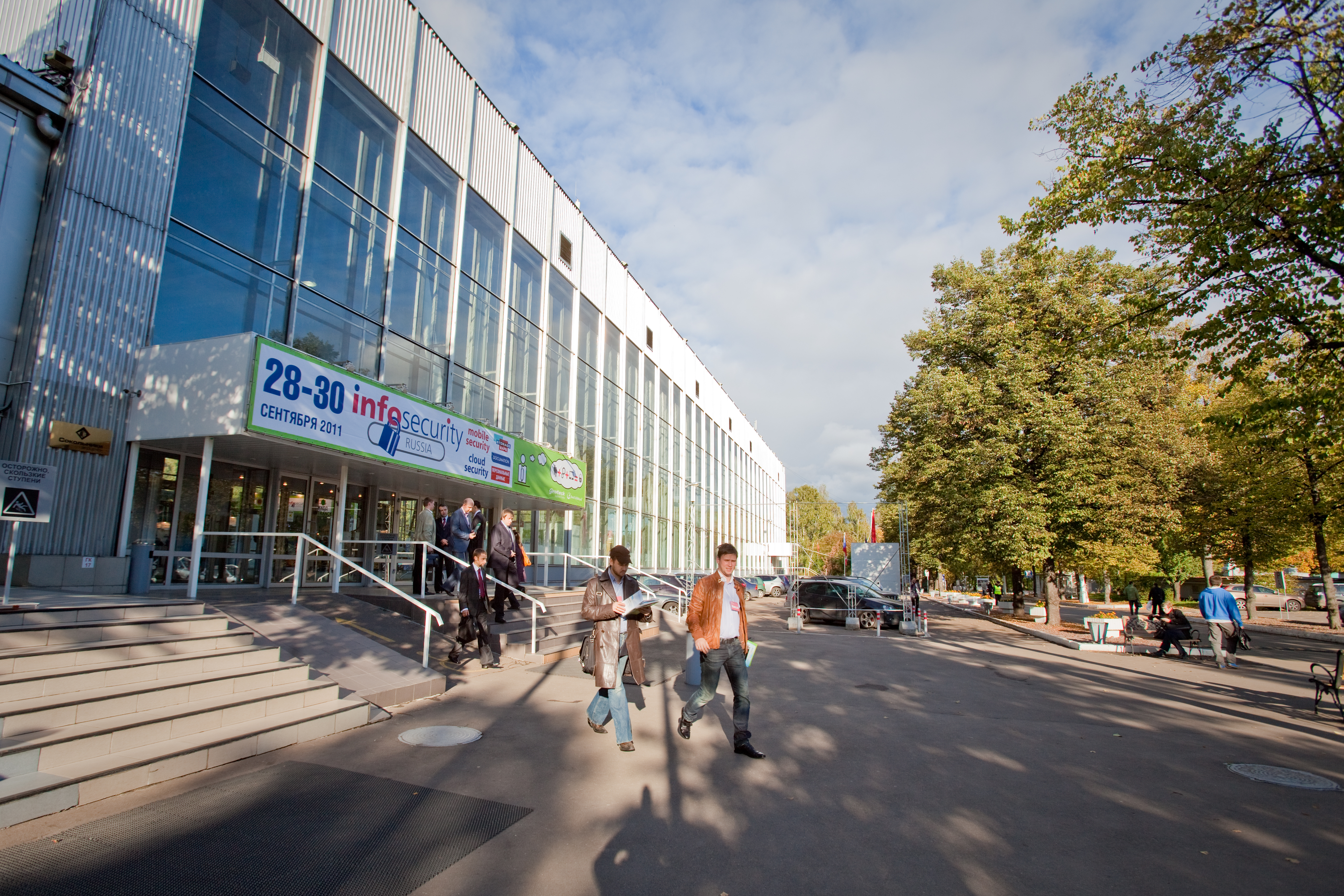 Photo of Exhibition and Convention Centre Sokolniki - pavilion #4